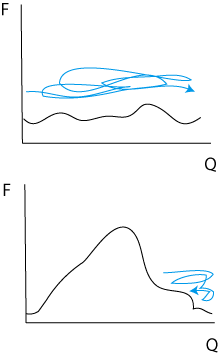 Illustration of how a potential barrier may prevent a Monte Carlo simulation from adequately sampling a system over a range of configuration space (to be fixed by umbrella sampling).